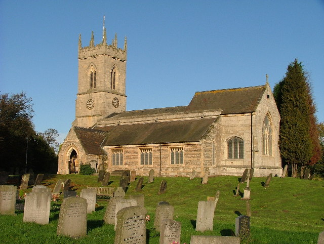 All Hallows Church Ordsall Nr Retford. A beautiful 13th. Century Village church,situated on a hill above the river Idle.John S Piercy who, in 1828, wrote "A History of Retford"is buried in the churchyard.